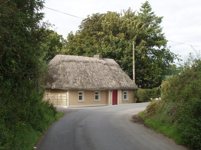 Thatched cottage near Aglish, near to Carrigeen and Ballygorey, Kilkenny, Ireland. It looks as if it has been rethatched recently, and probably given new windows. It is on the road from Carrigeen to Aglish.